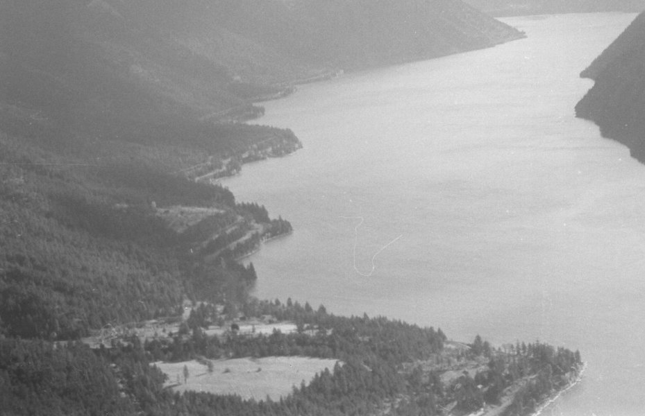 This picture was taken by my father Endre Cleven on a flight from Shalalth to Marshall Lake in the Bridge River Country, sometime in the late 1940s, just when the Bridge River Power Project townsite was being expanded (out of view below frame). All of the land in view on the left side of Seton Lake is Indian Reserve, although on the near side of the point in the foreground, which is the main part of Shalalth, there were non-native residences and businesses centred around the train station of the Pacific Great Eastern Railway, which was also on the near side of the point, at the bottom of the Mission Mountain Road which goes up the mountainside to the left to the valley of the Bridge River. The new residential area of Ohin is in the area of the third and/or fourth points, but was not built at this time.